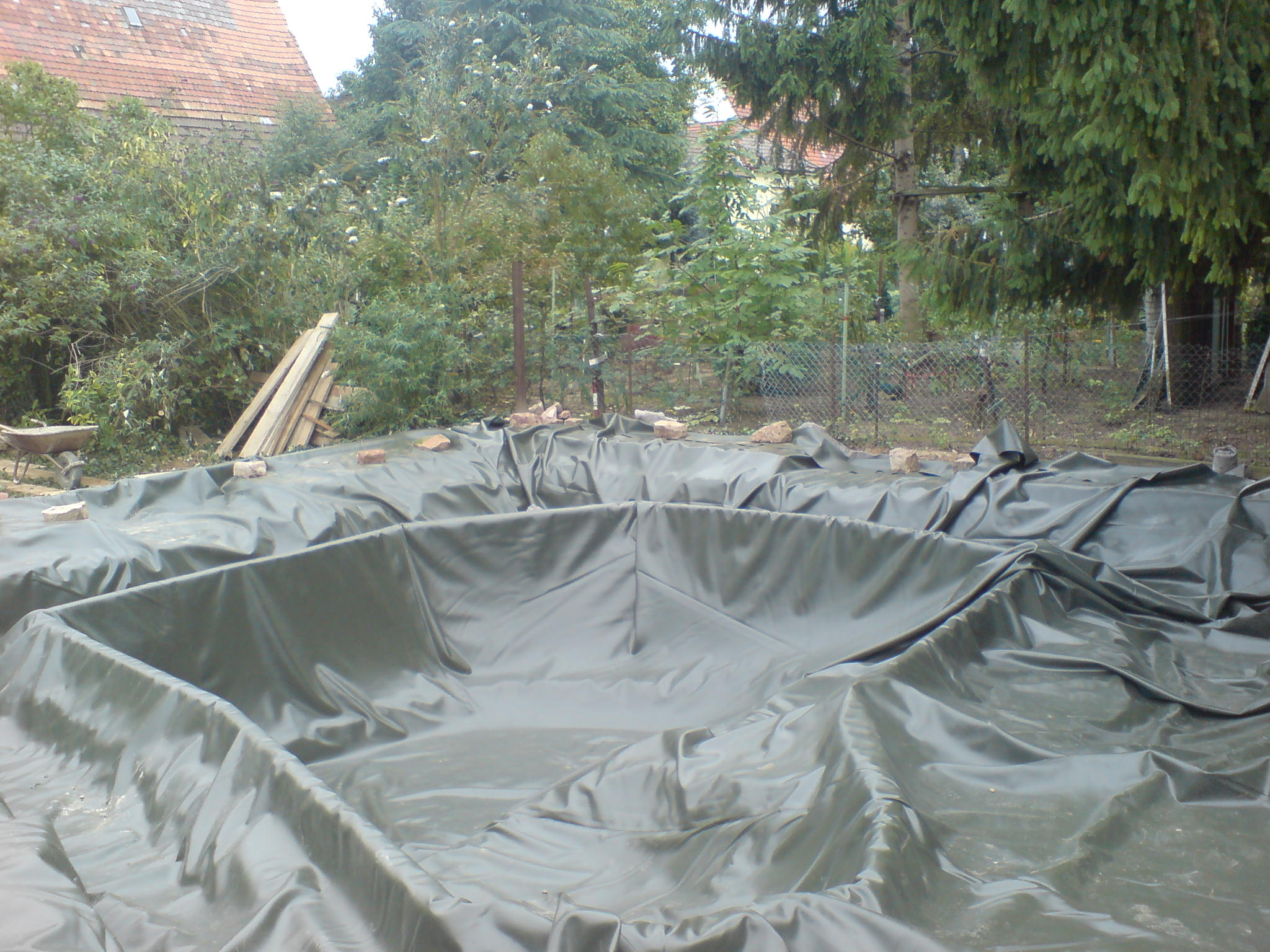 we build a pond - part 2: pond foil ready